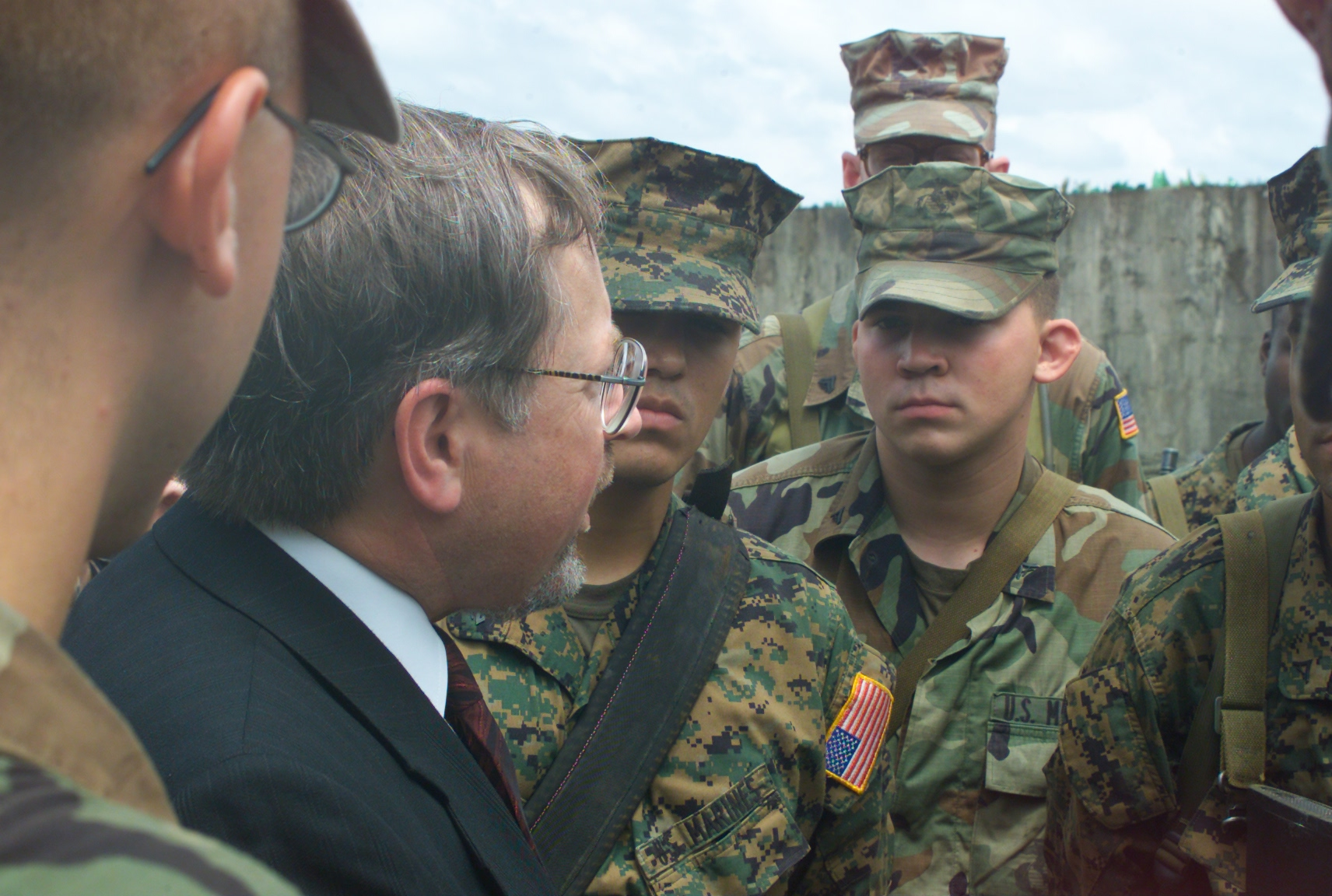 Me and John W. Blaney when I was in Liberia.